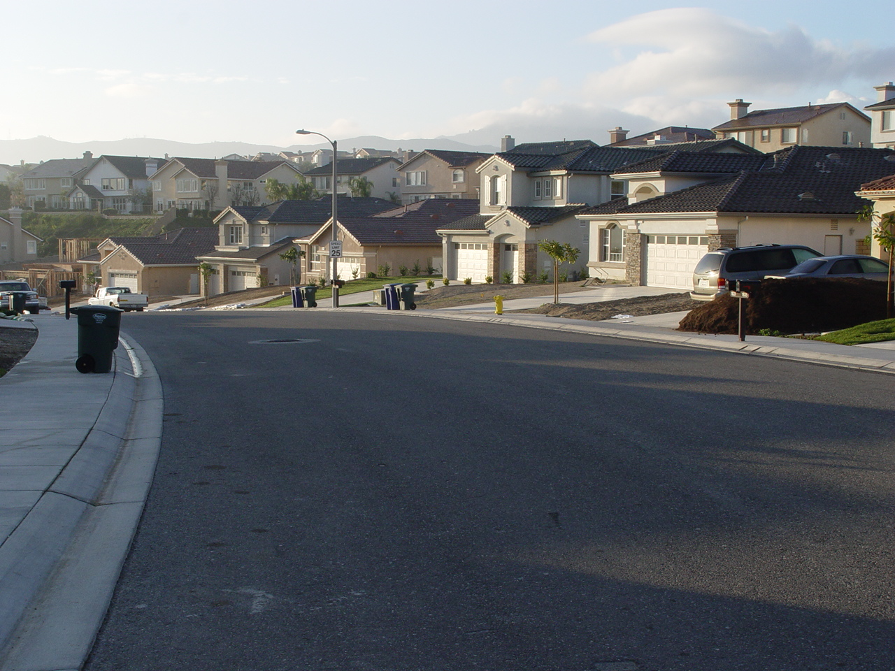 A typical suburban street found in Thousand Oaks, USA